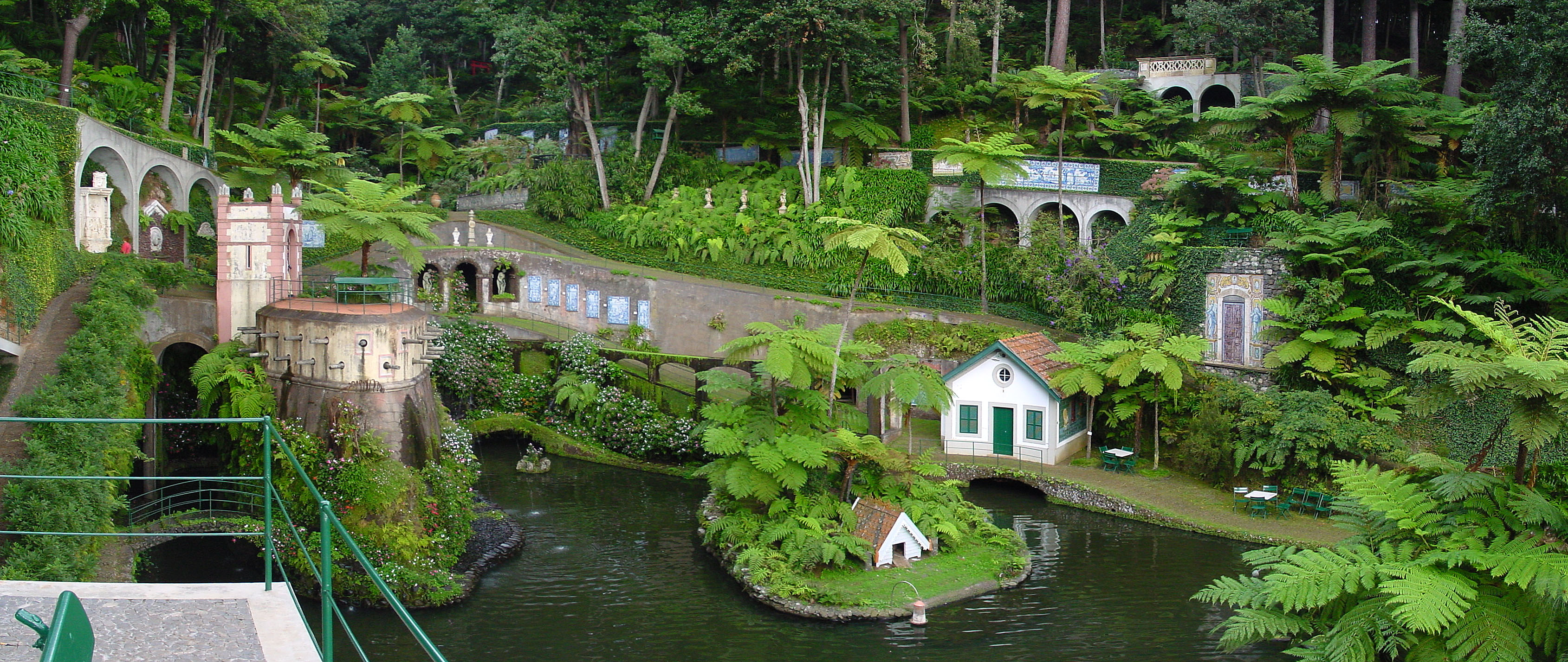 Monte Palace Tropical Garden, Funchal, Madeira. The exact camera position is not known.